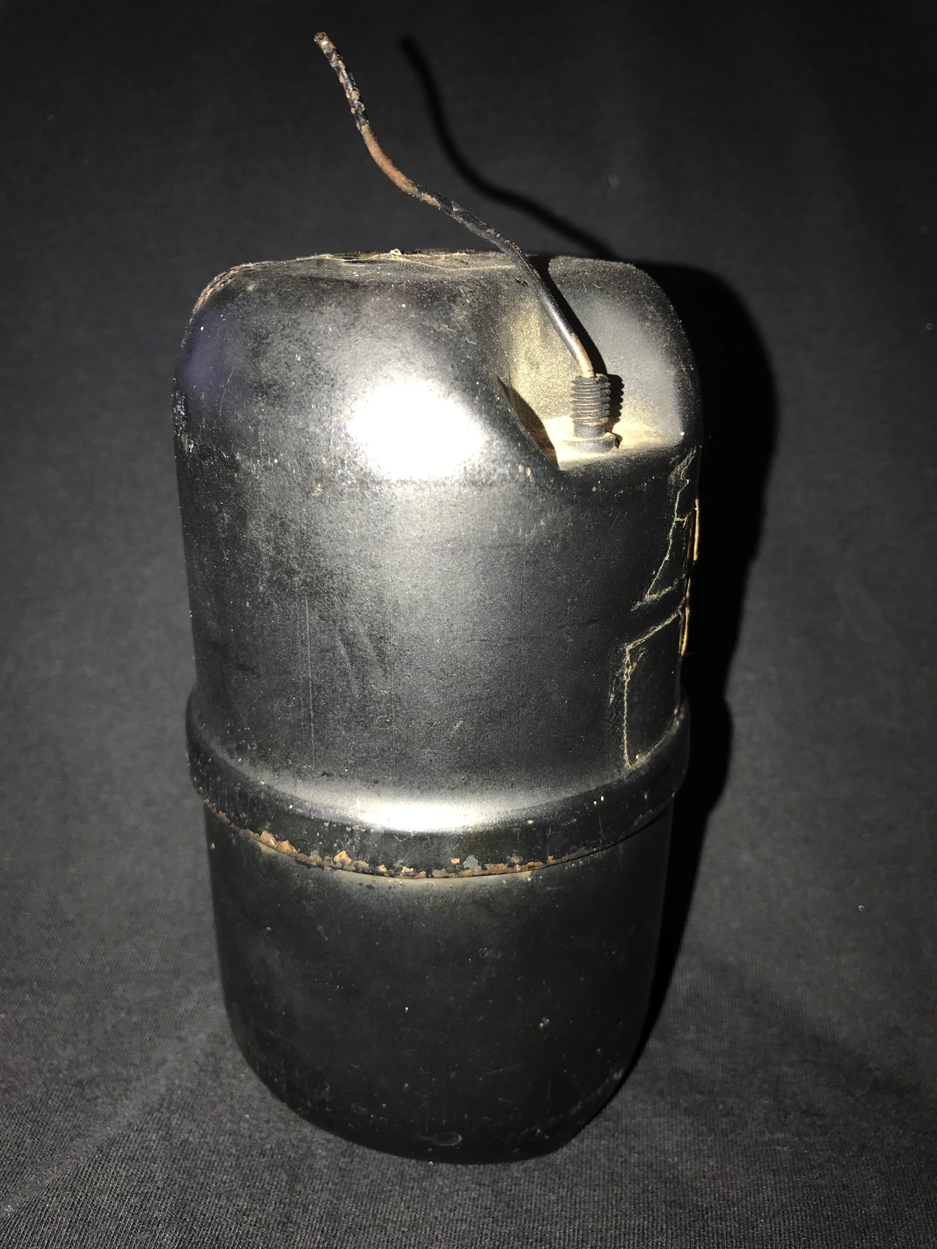 This is a photograph of the first mass-produced version of the aerosol bomb used to dispense insecticide. This 1 lb. form factor was developed shortly after the start of World War II and used extensively in the Pacific Theater to control mosquitoes and the spread of malaria. The device dispensed a solution of pyrethrum and sesame oil as the insecticide using Freon 12 as the gas propellant. It was activated by breaking the wire-tab seal and deactivated, if not emptied, by placement of knurled threaded metal cap (not shown). Approximately 40 million were manufactured as part of the war effort.